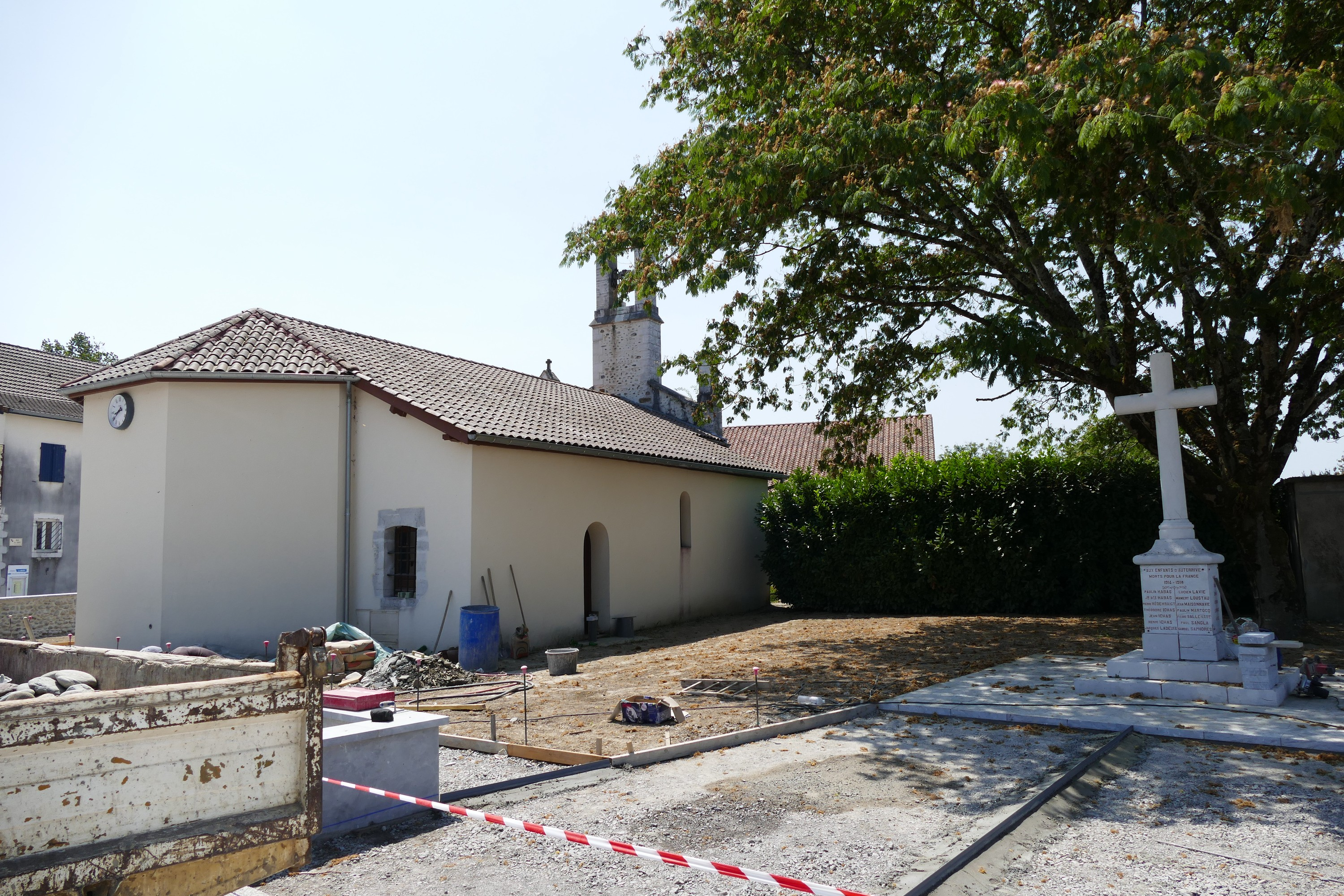 Saint-John-the-Baptist's church in Auterrive (Pyrénées-Atlantiques, Nouvelle-Aquitaine, France).